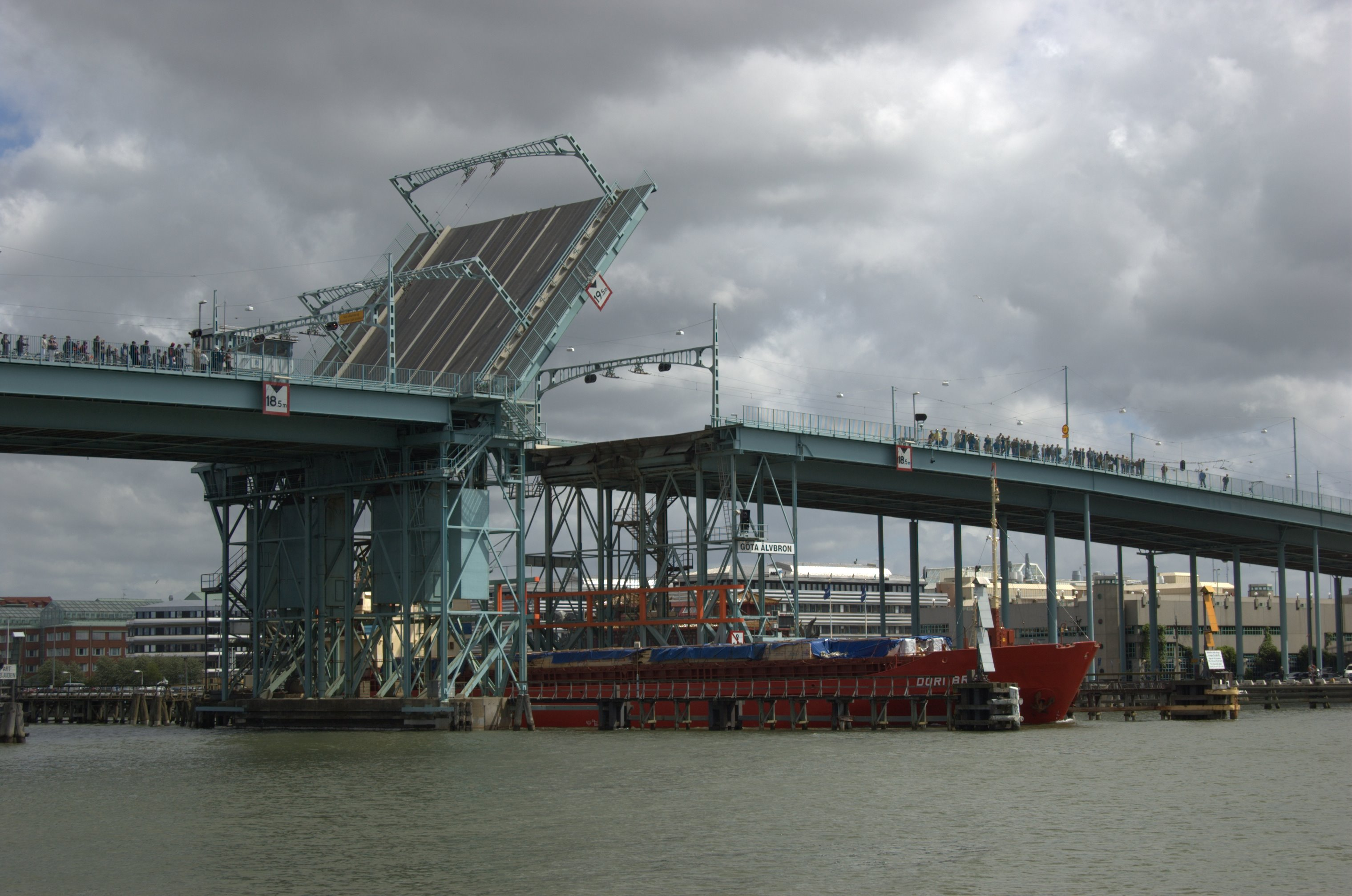 This is the bridge Göta älvbron in Gothenburg, Sweden. This is the inner of the in total two bridges that as of 2006 connect the north and south parts of Gothenburg. Formally, this bridge connects mainland Gothenburg (south) to the island Hisingen (north). Camera: Nikon D50